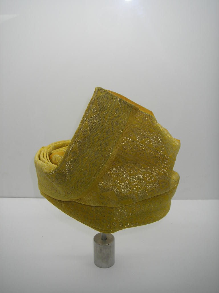 The Selangor Sultan's Headgear (Solek Balung Raja) is the yellow songket destar, an official headdress for the present Sultan of Selangor. It is worn during the State's Royal Custom and ritual ceremonies like Coronation Ceremony, Royal Birthday and so on. The destar`s design is adapted from Tengkolok Balung Ayam from Perak after a royal wedding between the two states.